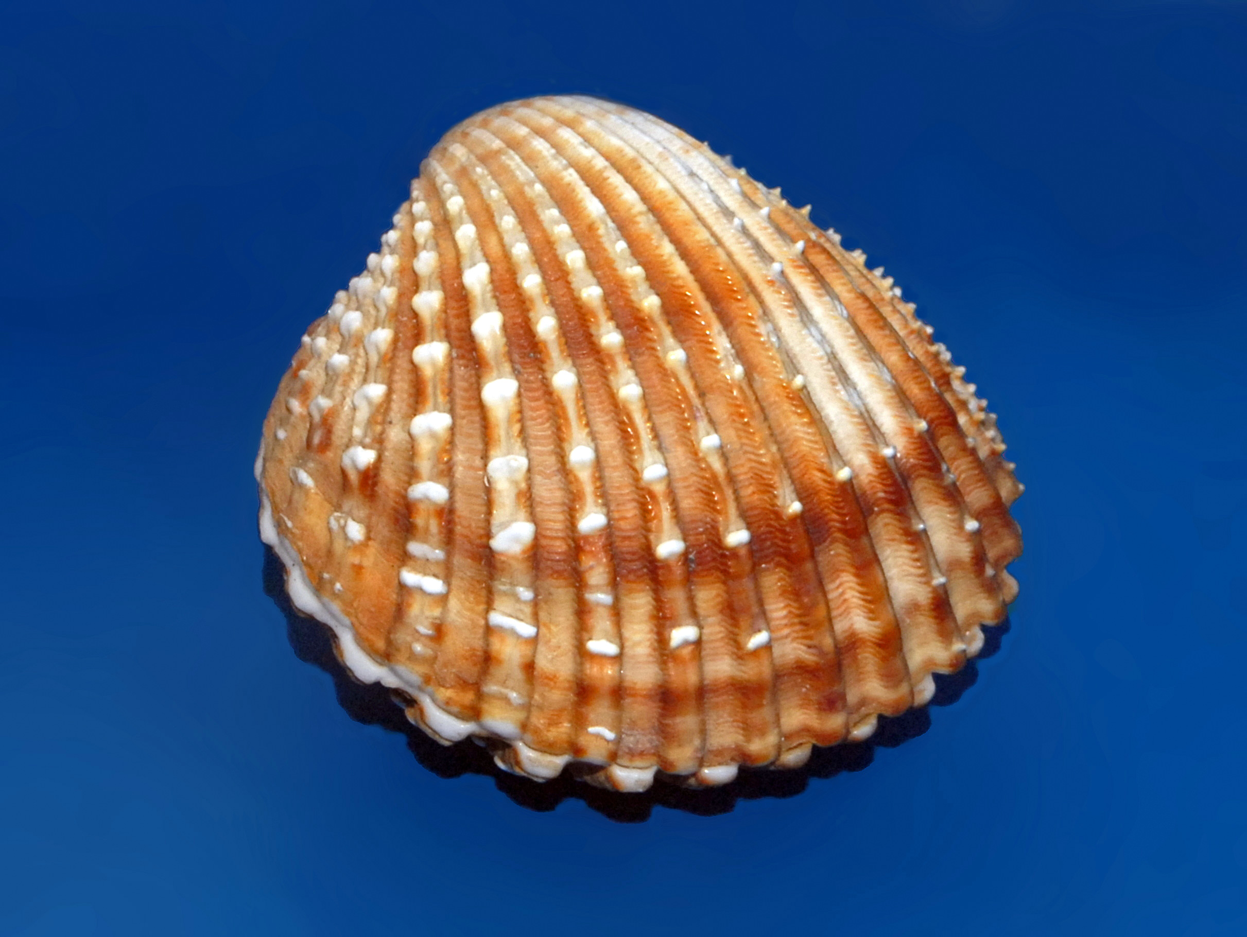 Shell of Acanthocardia tuberculata from Sicily at the Museo Civico di Storia Naturale di Milano